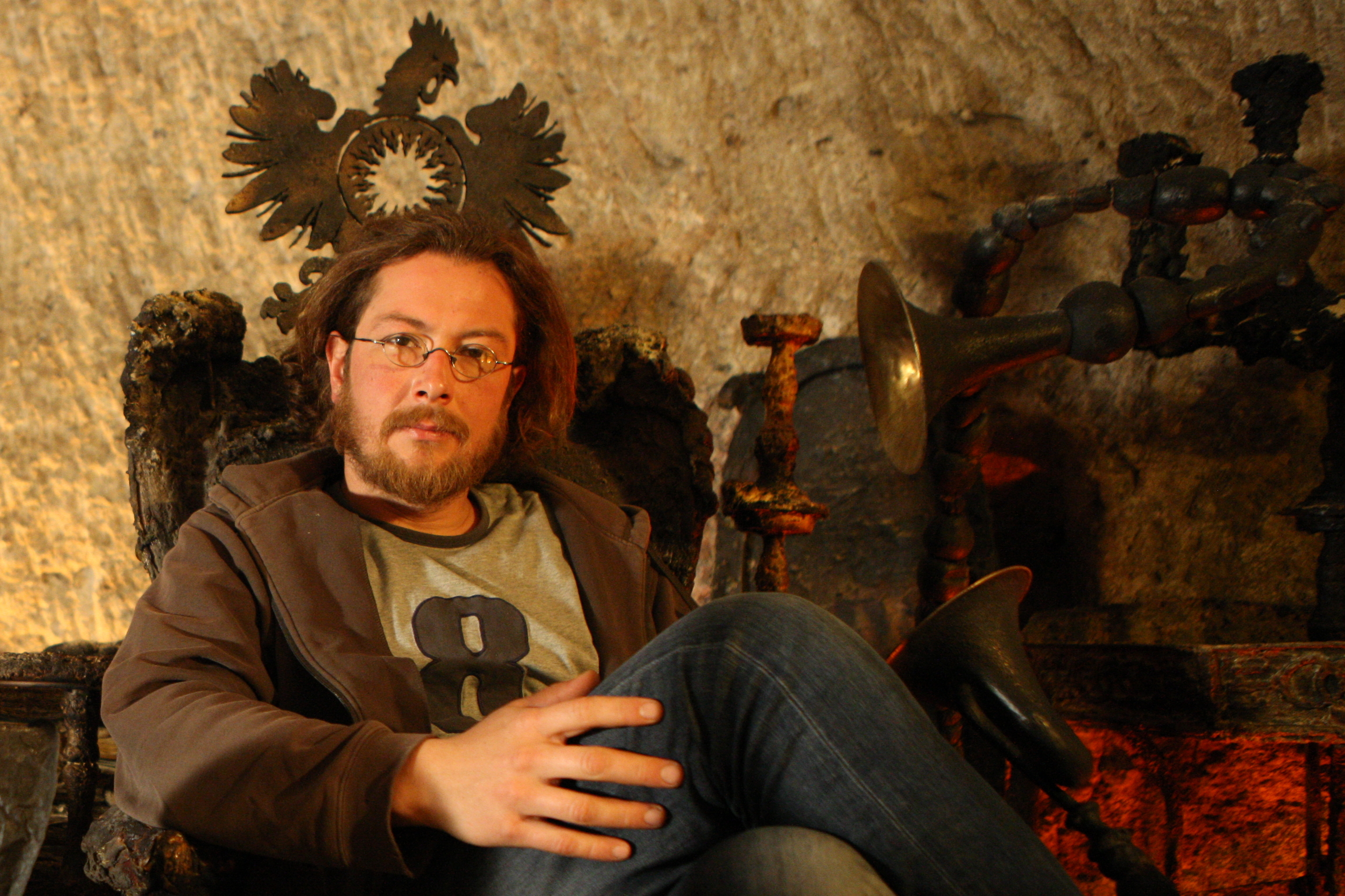 Ondřej Beránek on the set of fairytale Čertí brko